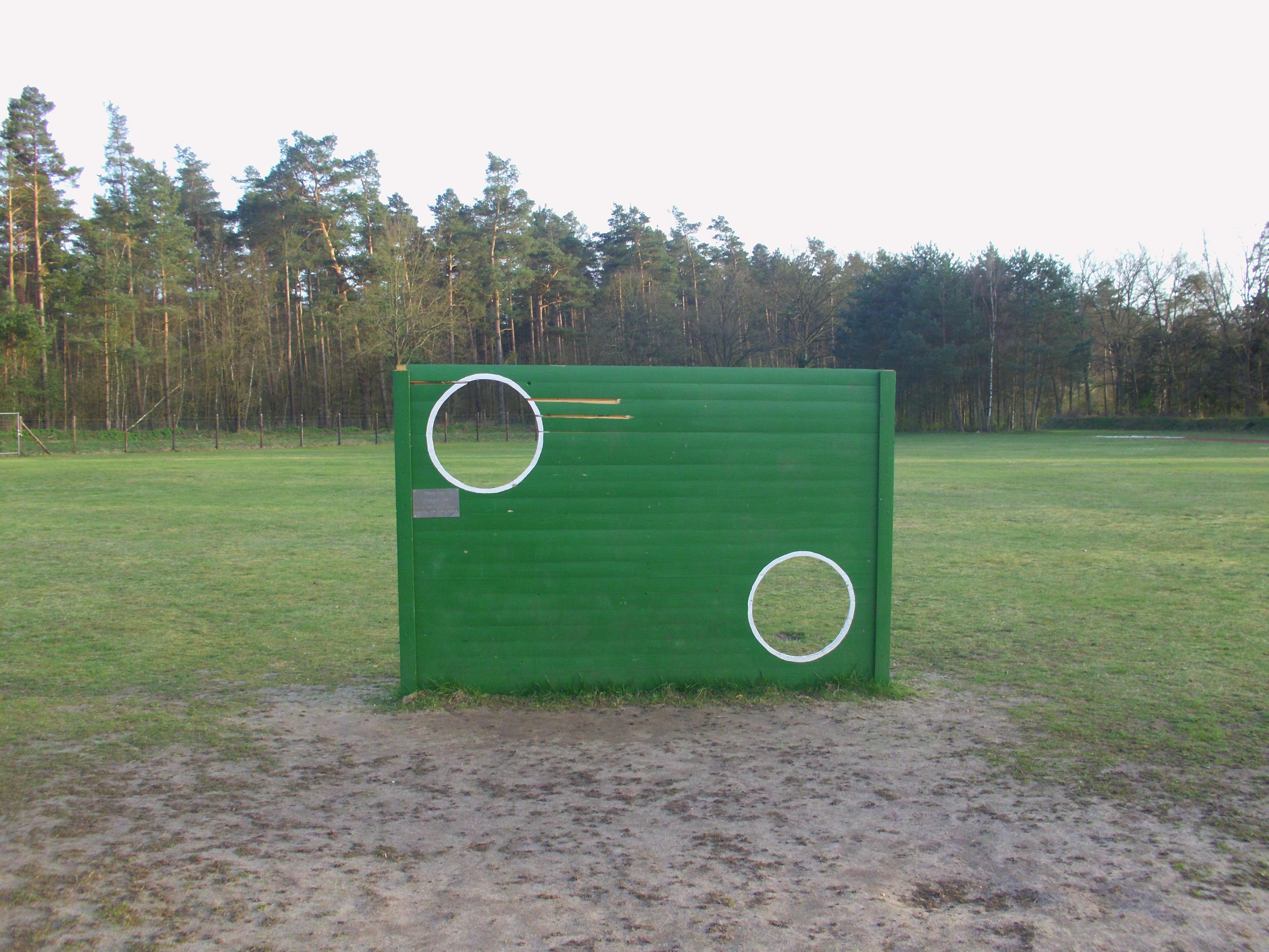 A soccer target in Lachendorf